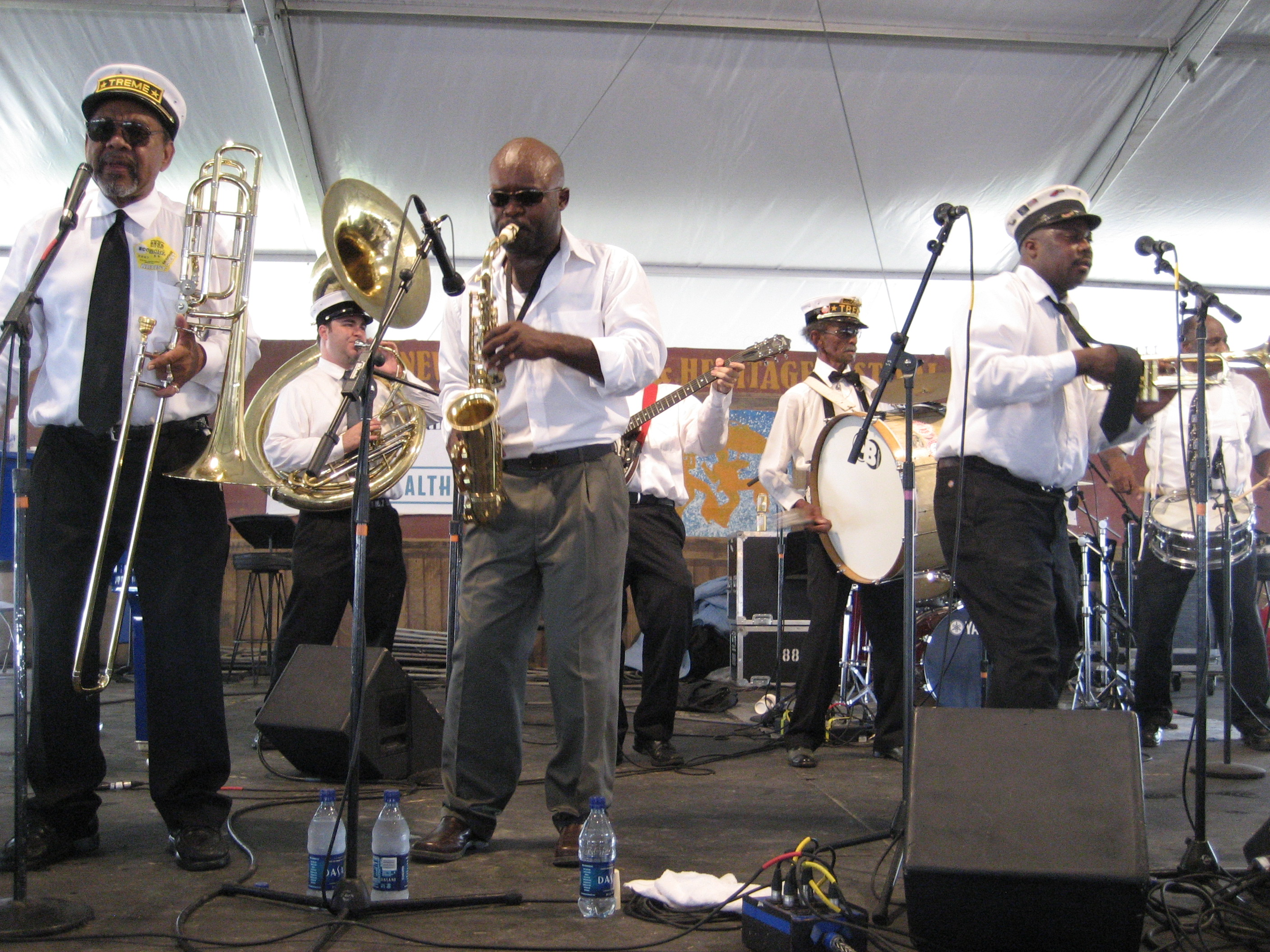 New Orleans Jazz & Heritage Festival. Treme Band